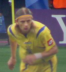 Anatoliy Tymoschuk during the Ukraine - Saudi Arabia match at the 2006 World Cup